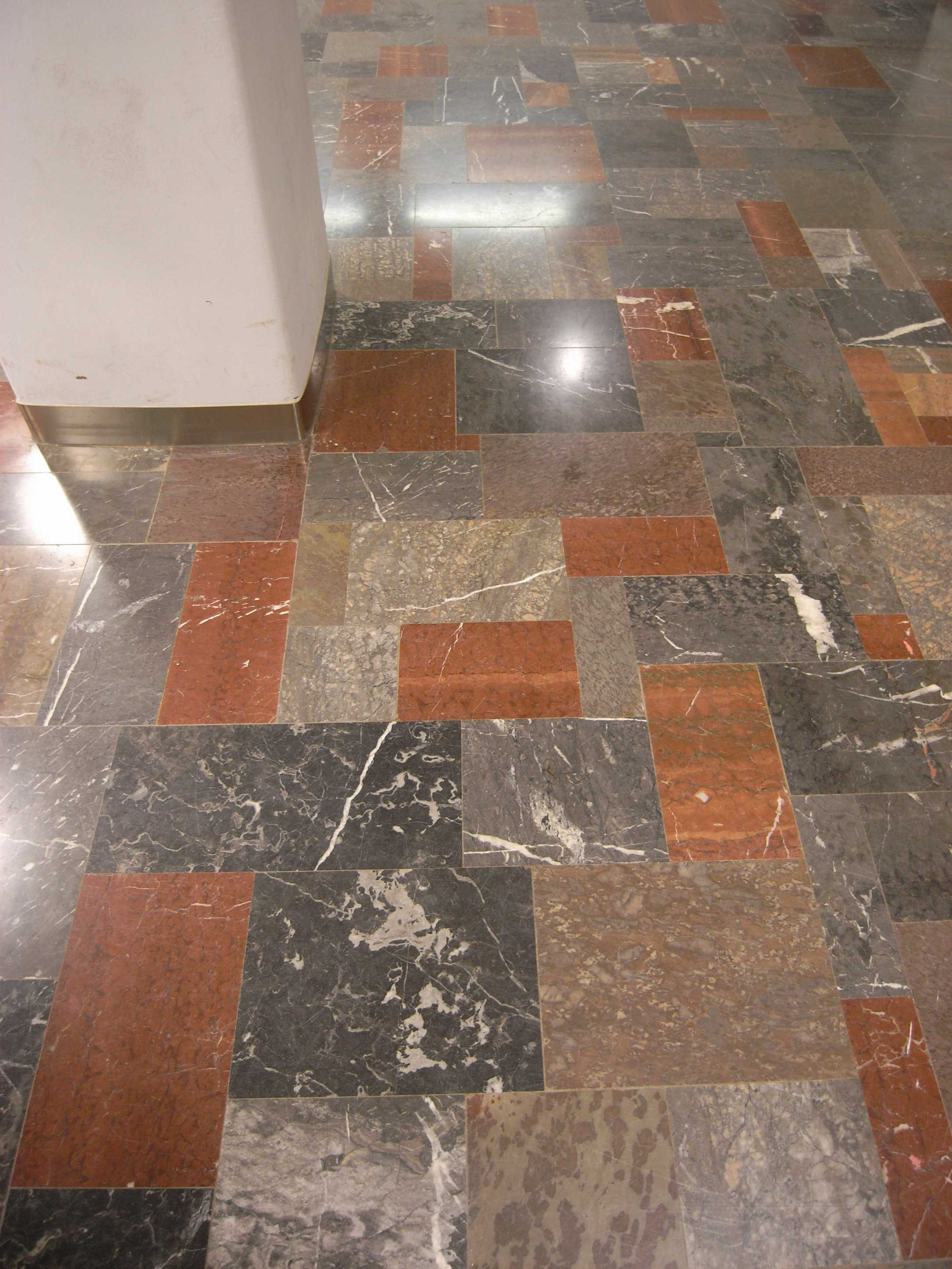 Saalburg Marbles (limestones), Germany